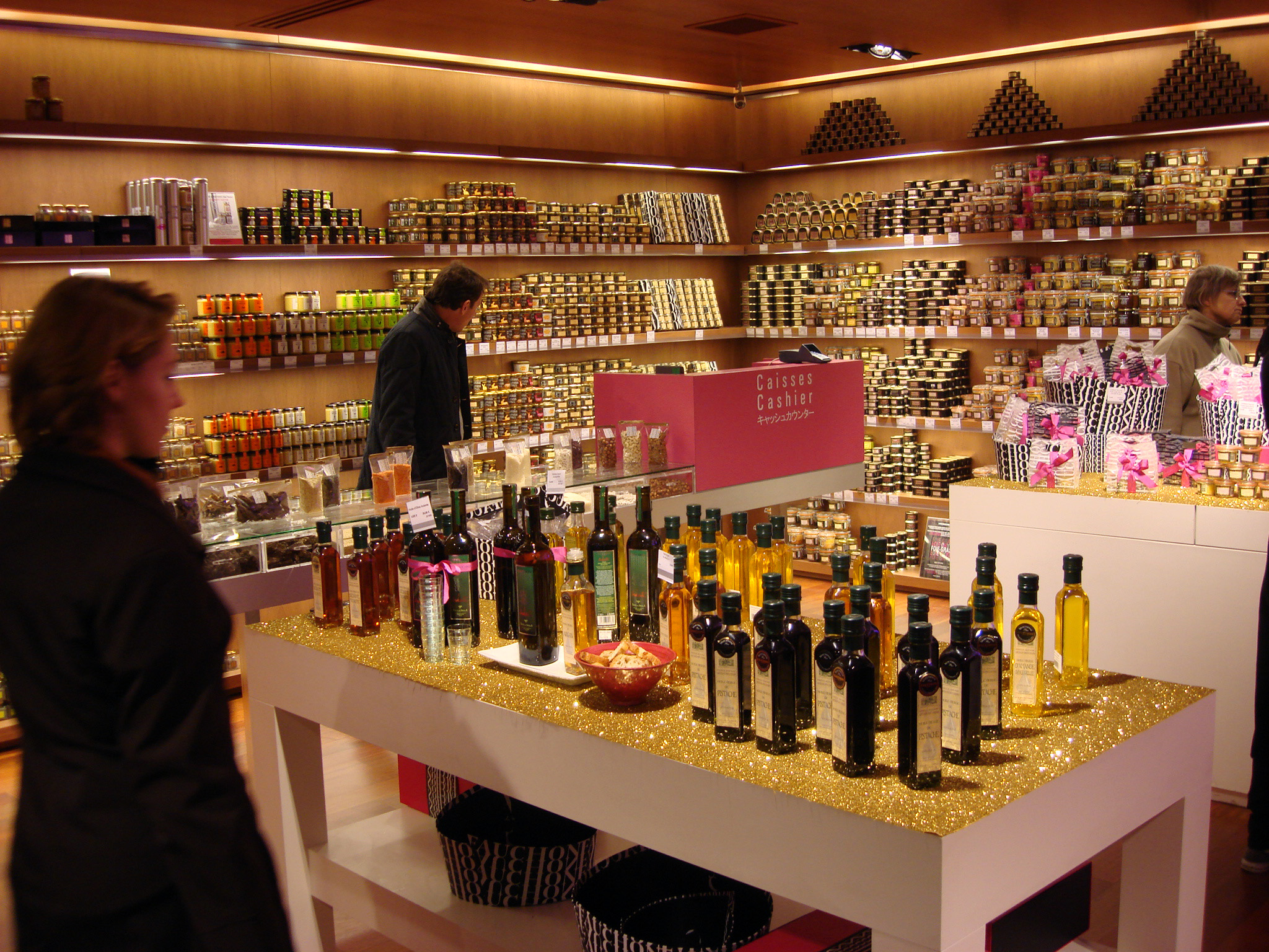 Fauchon shop in Paris